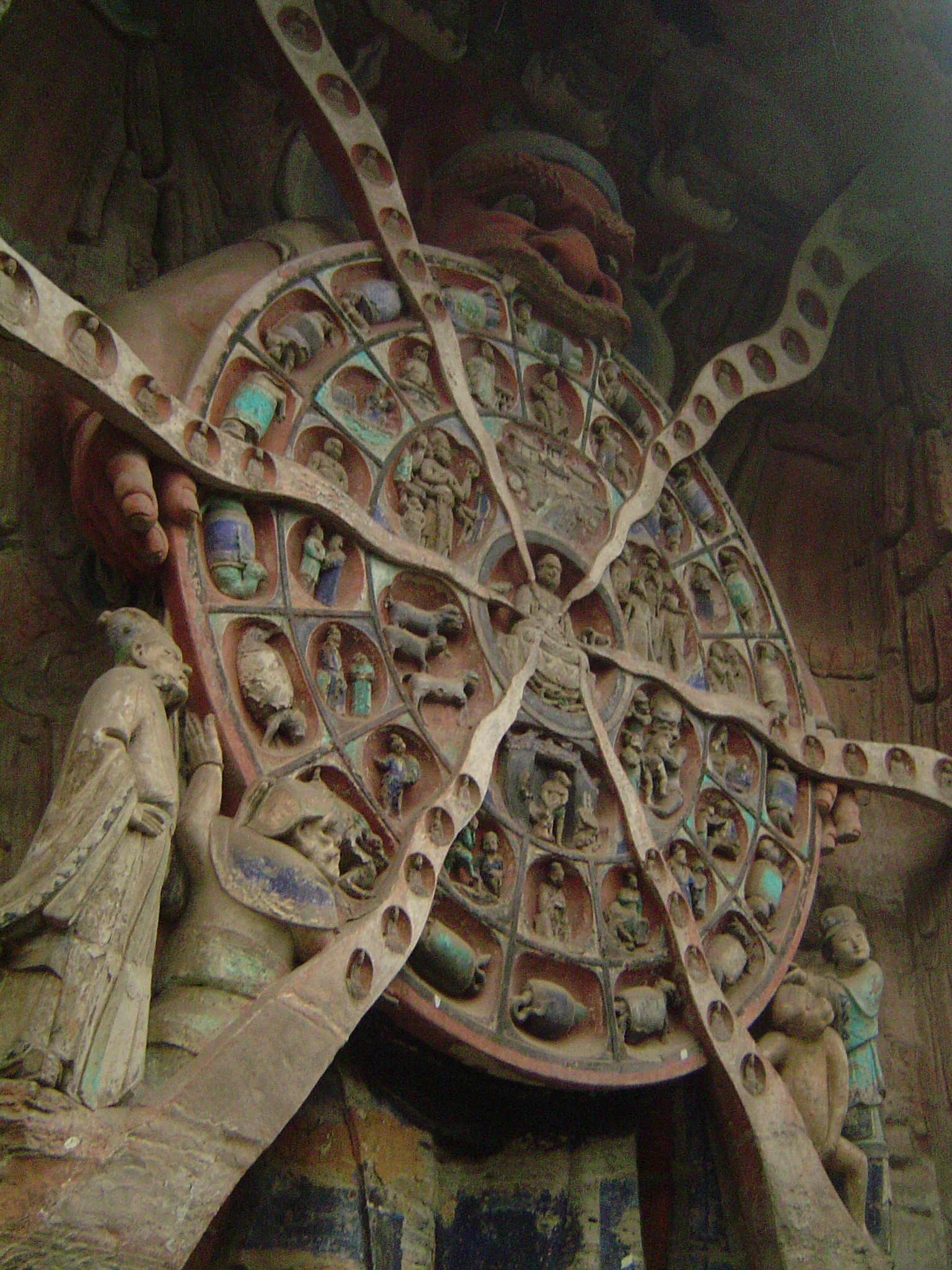 In this 8-meter (25-foot) tall Buddhist relief from the Dazu Rock Carvings in China, built sometime between the years 1177 and 1249, Mara, Lord of Death and Desire, clutches the Wheel of Reincarnation, which outlines the Buddhist cycle of reincarnation.